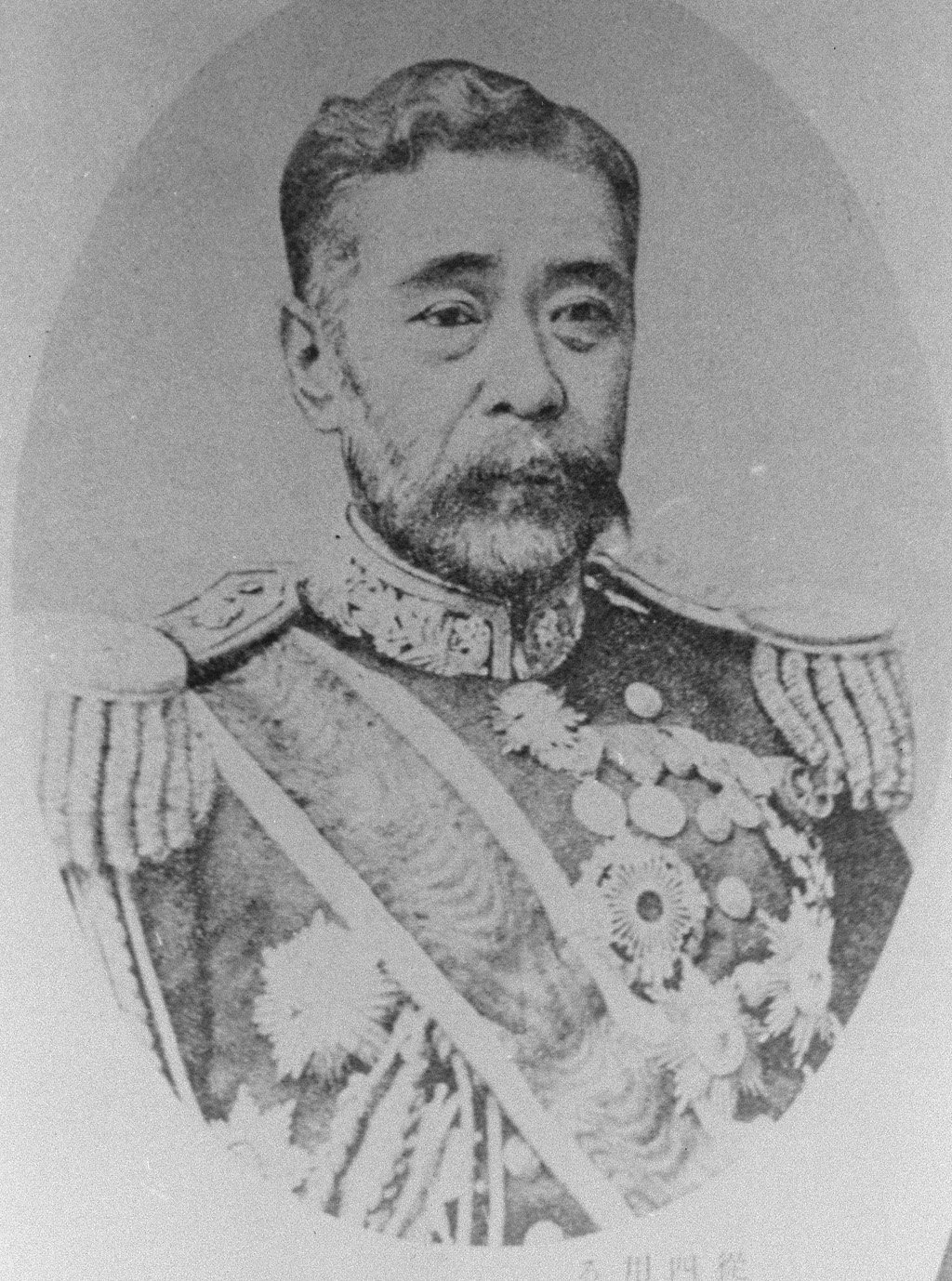 Portrait of Saigo Tsugumichi (西郷従道, 1843 – 1902)